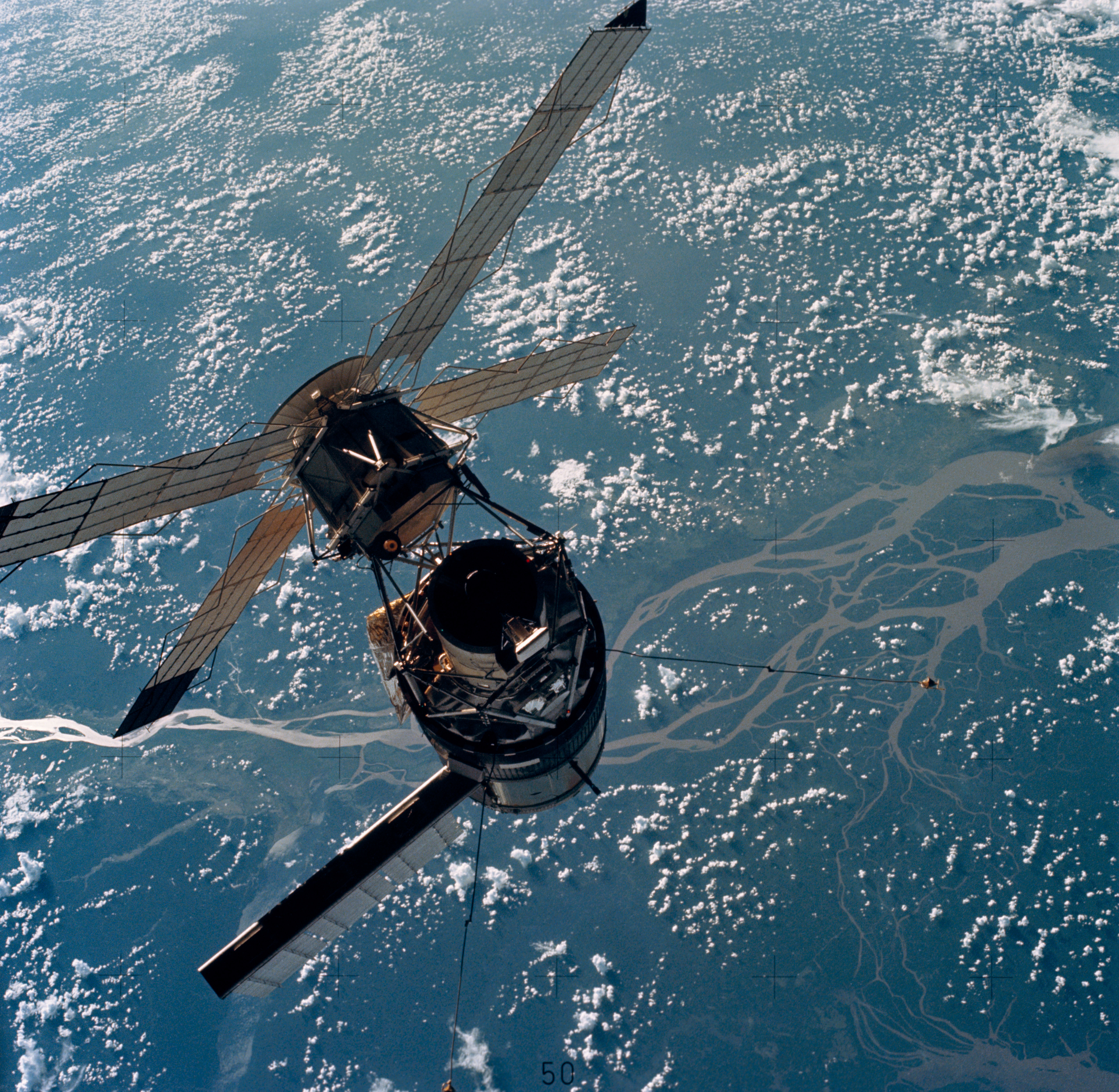 A closeup view of the Skylab space station photographed against an Earth background from the Skylab 3 Command/Service Module during station-keeping maneuvers prior to docking. The Ilba Grande de Gurupa area of the Amazon River Vally of Brazil can be seen below. Aboard the command module were astronauts Alan L. Bean, Owen K. Garriott, and Jack R. Lousma, who remained with the Skylab space station in Earth's orbit for 59 days. This picture was taken with a hand-held 70mm Hasselblad camera using a 100mm lens and SO-368 medium speed Ektachrome film. Note the one solar array system wing on the Orbital Workshop (OWS) which was successfully deployed during extravehicular activity (EVA) on the first manned Skylab flight. The parasol solar shield which was deployed by the Skylab 2 crew can be seen through the support struts of the Apollo Telescope Mount.